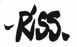 Riss' signature.